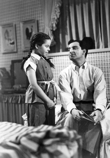 Publicity photo of Danny Thomas and his daughter, played by Sherry Jackson, from the television program Make Room for Daddy.